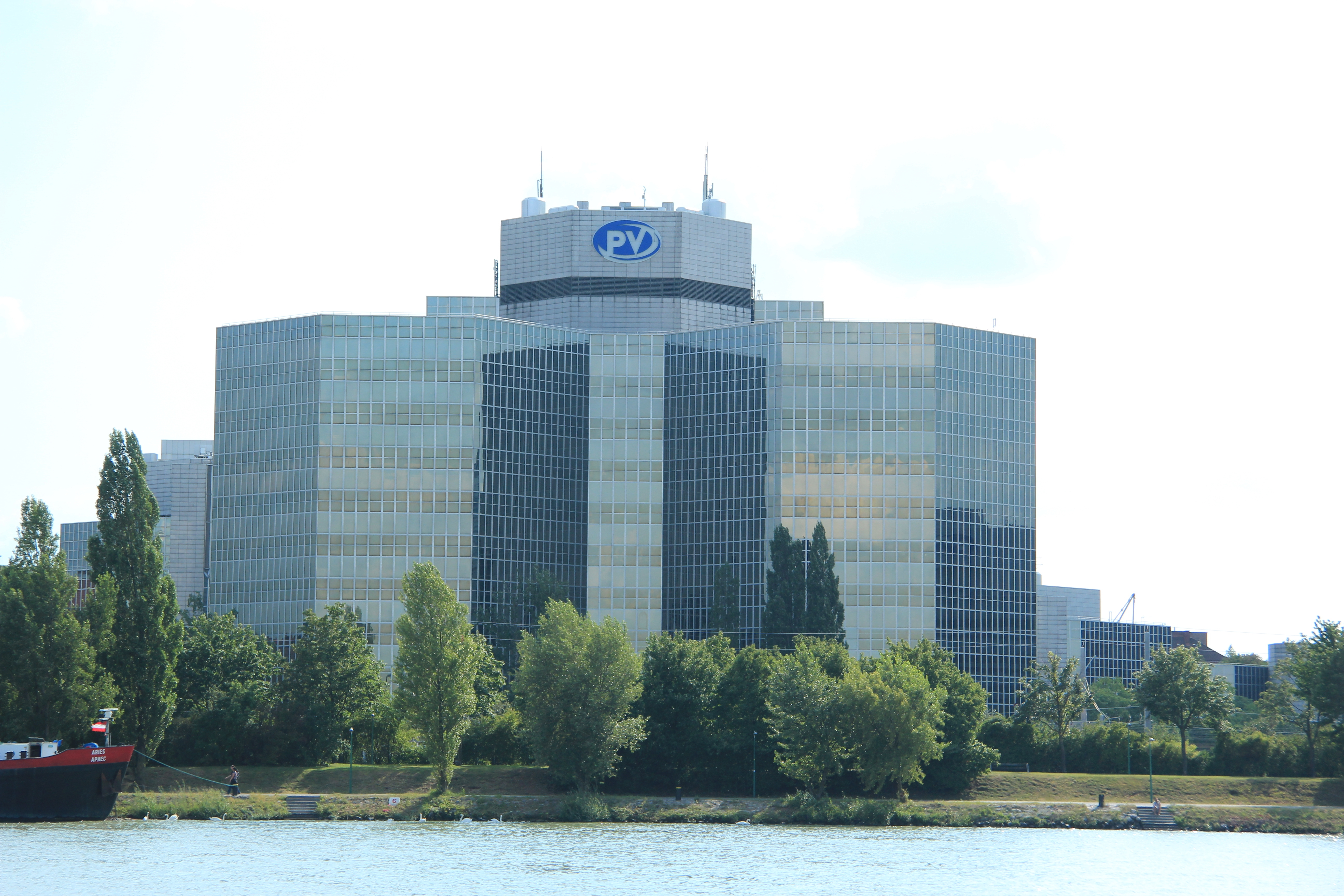 Danube in Vienna